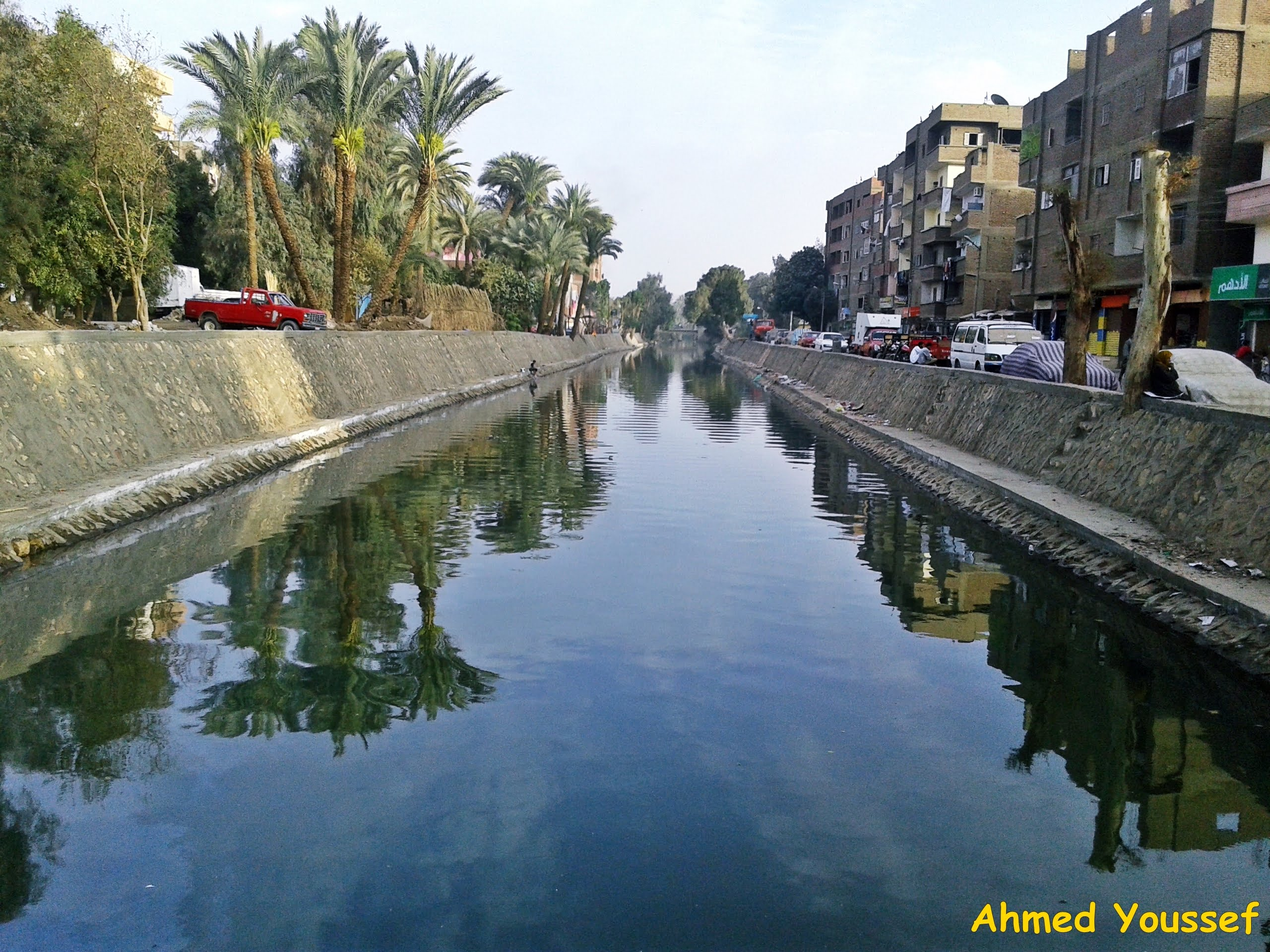 manqabad canal